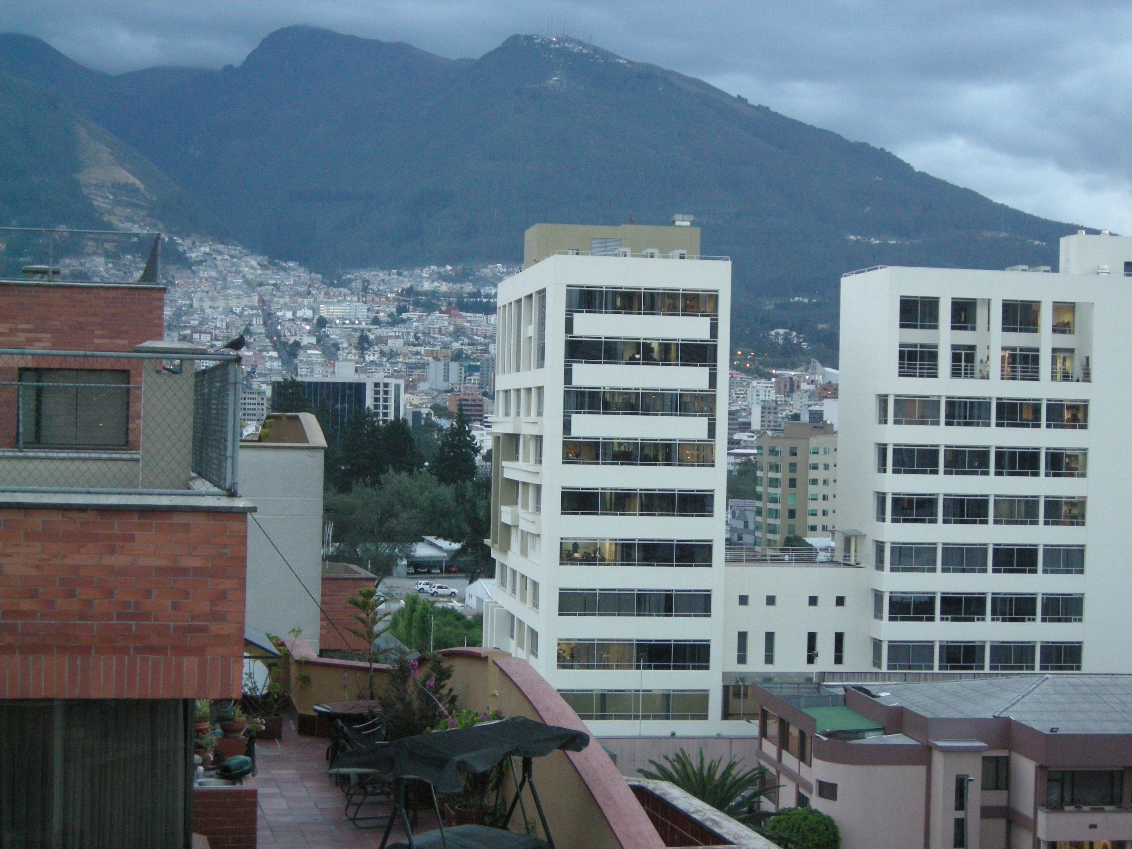 Picture The city of Quito